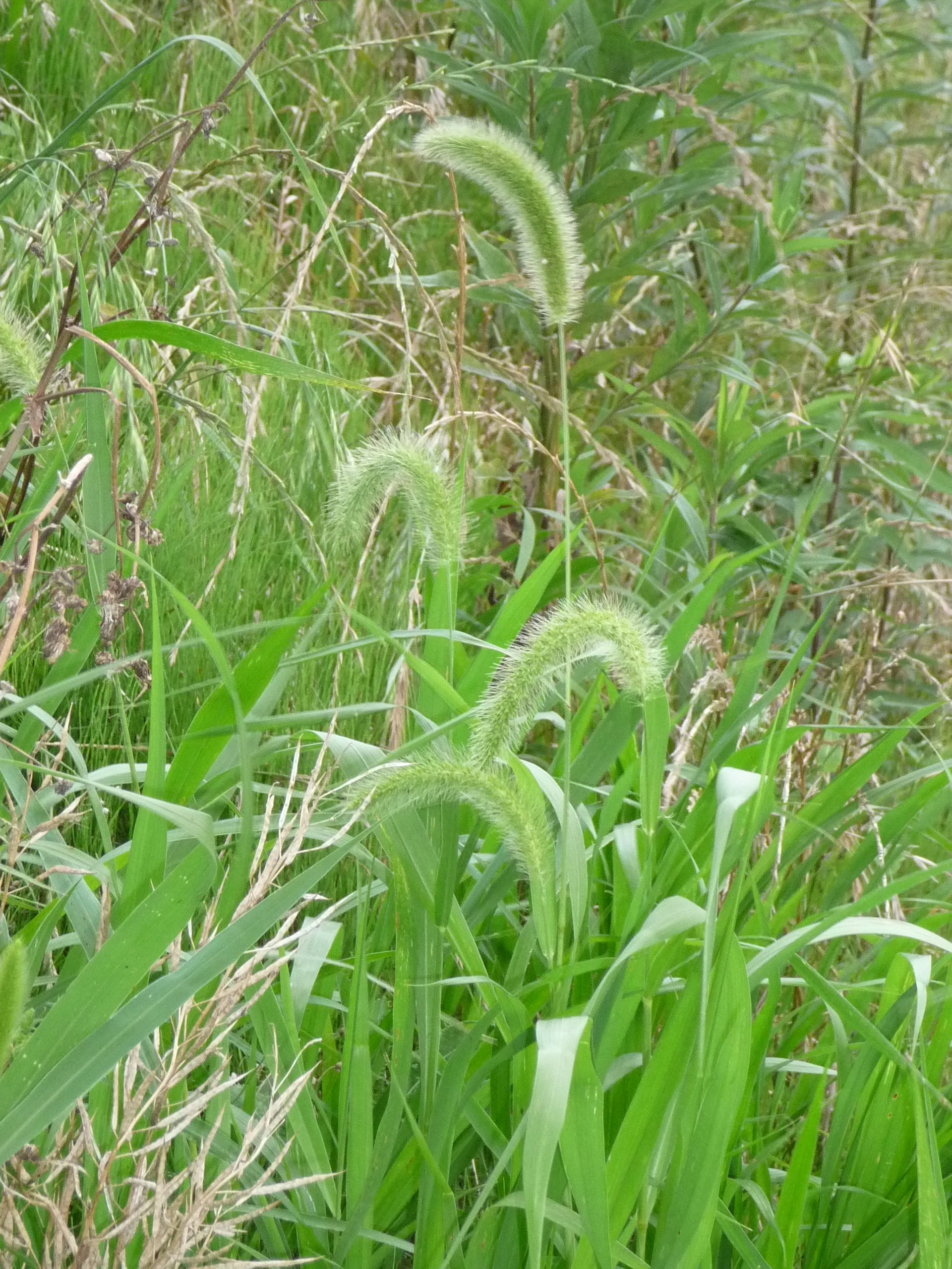 Setaria viridis P. Beauv. (Enokorogusa-Japanese) in Chiba Japan